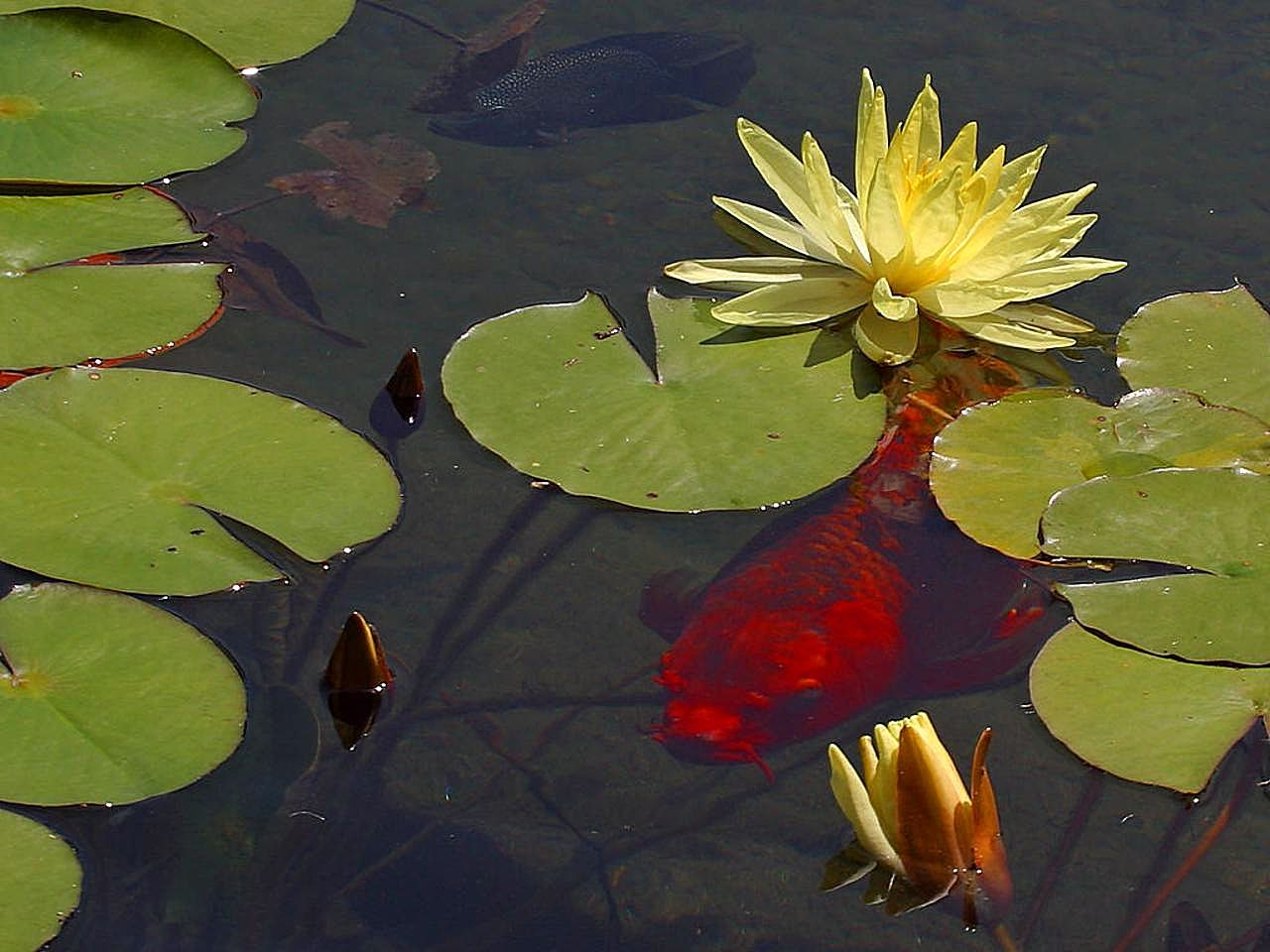 Image title: Goldfish waterlily lilies ponds Image from Public domain images website